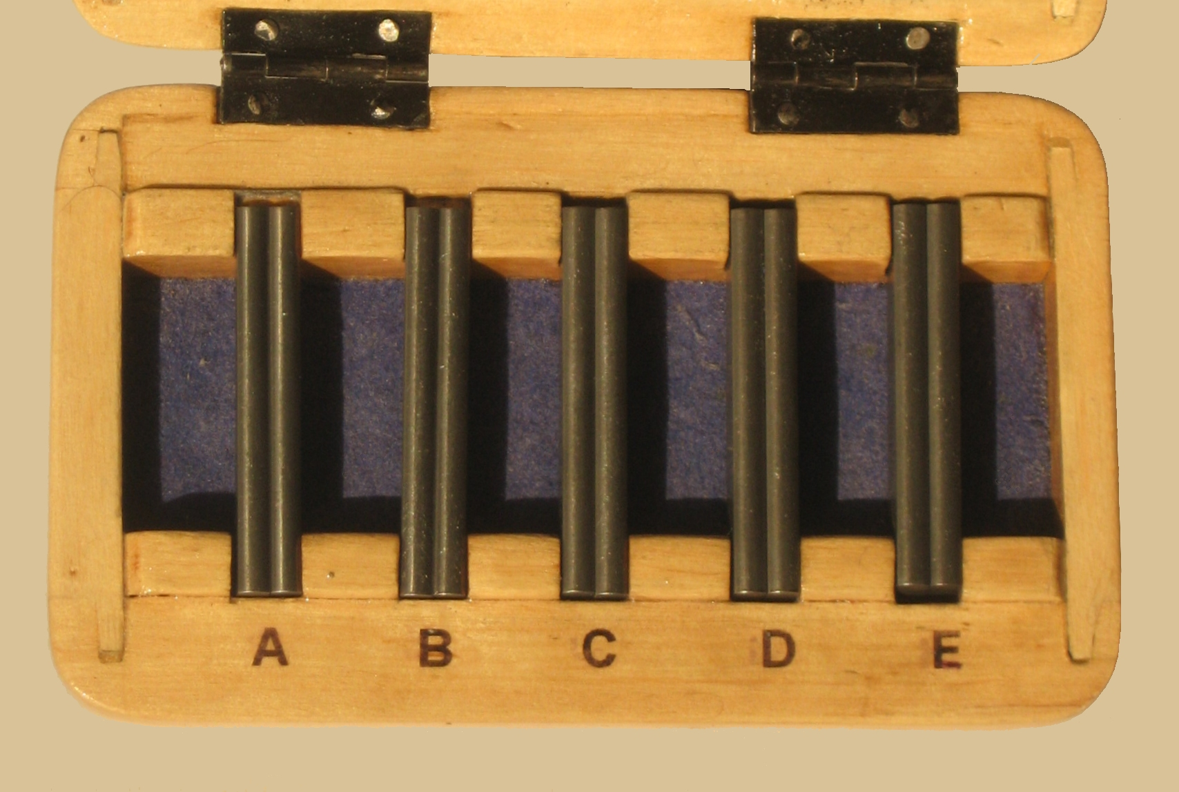 Taper parallels designed to be used with micrometer to measuring internal dimensions. Product of TESA